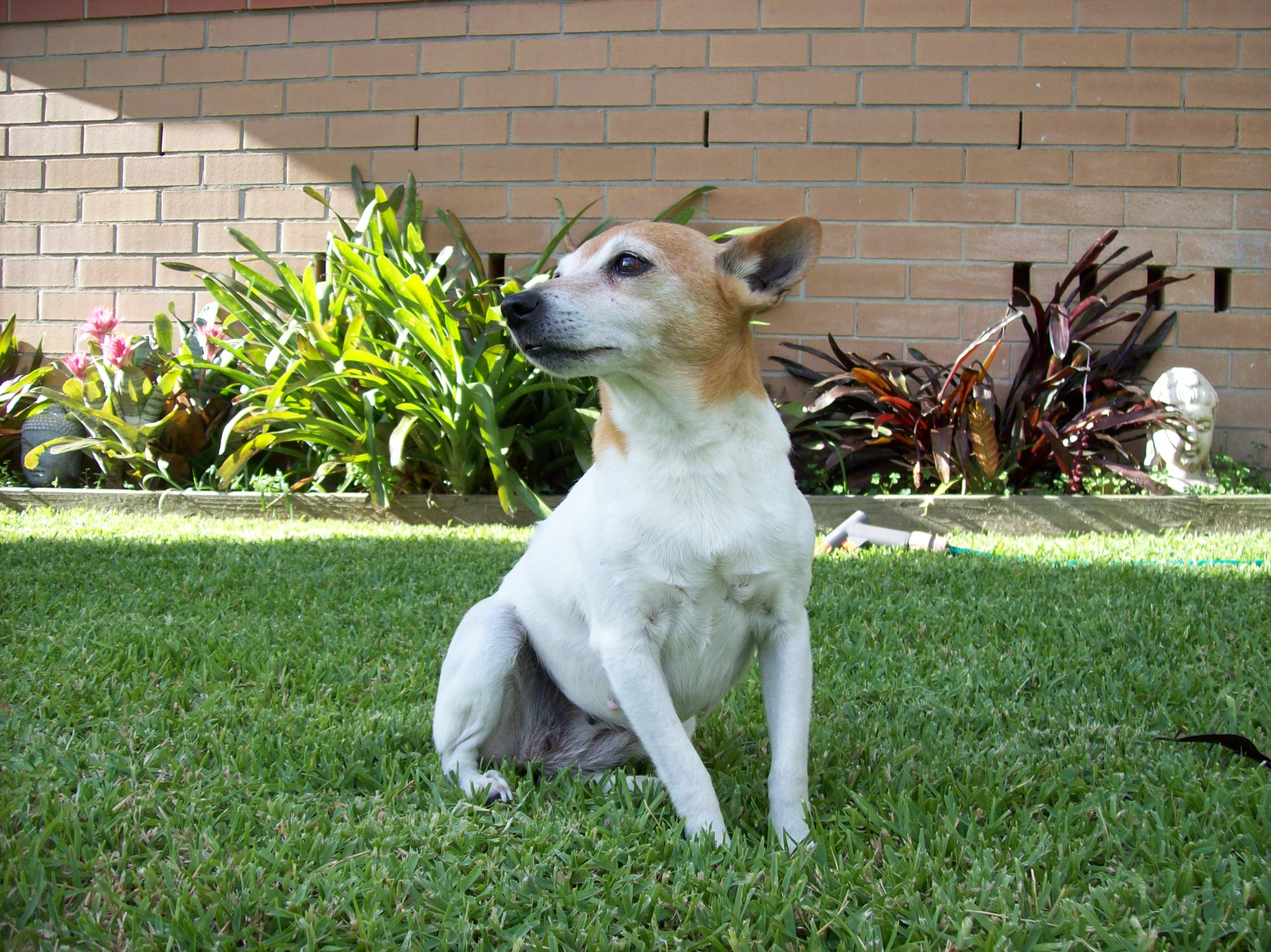 Miniature fox terrier. Tan and white. Two solid full spots. Approx sixteen years old.